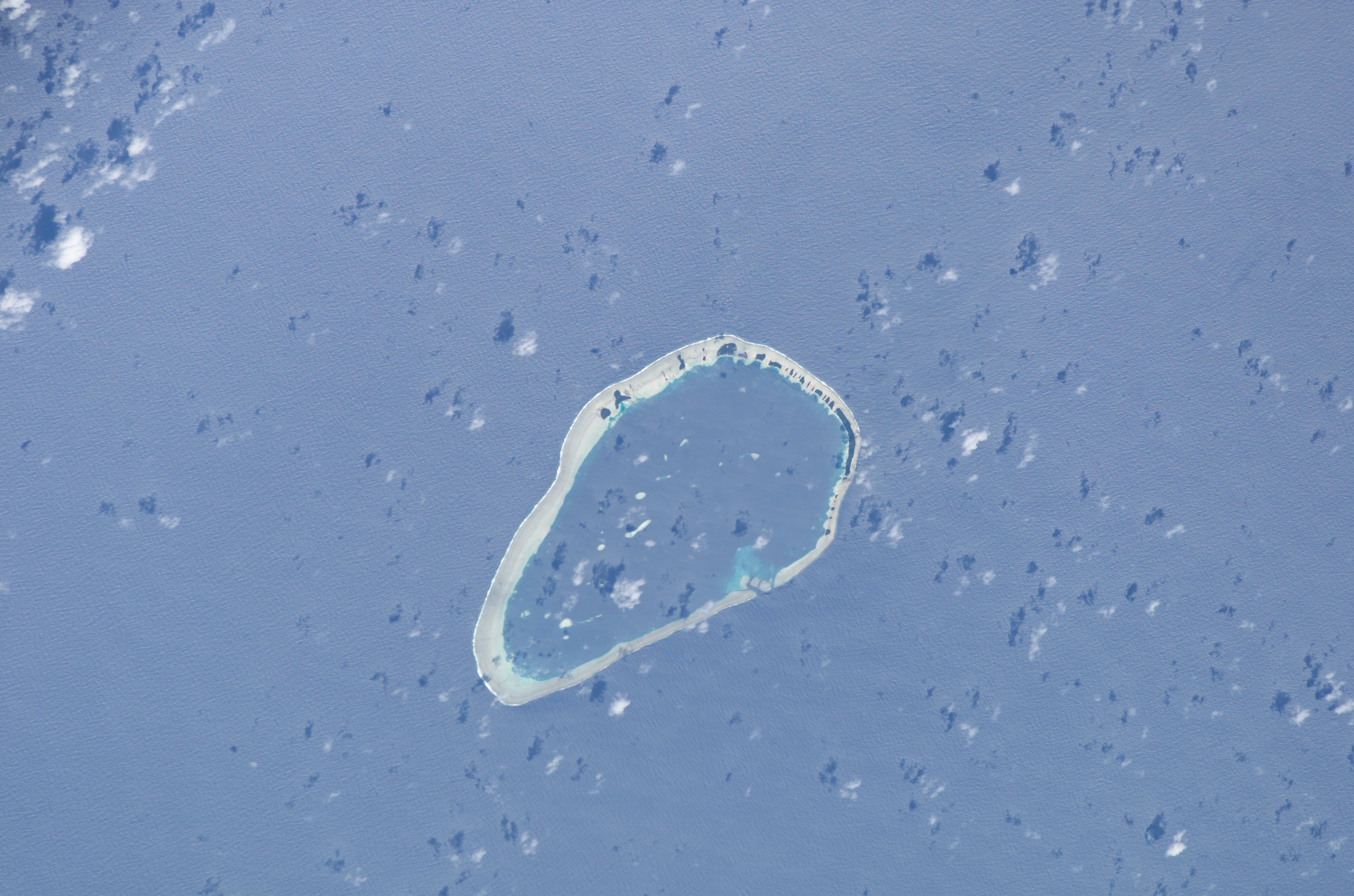 The atoll of Kapingamarangi, a polynesian exclave in the Federated States of Micronesia